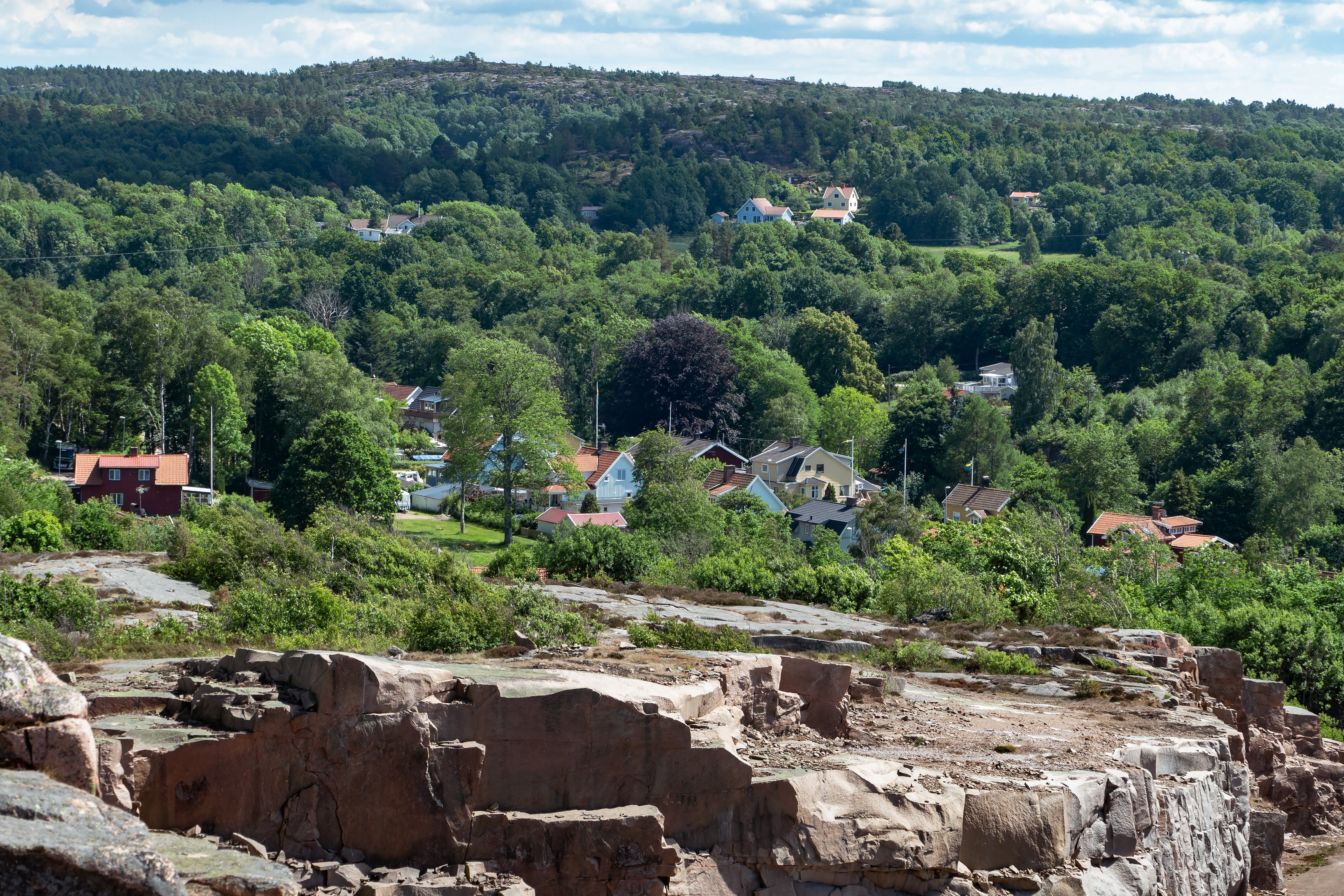 Rixö village with part of the granite quarry in the foreground, Lysekil Municipality, Sweden. Photo taken from a ledge on Busberget overlooking the old granite quarry.